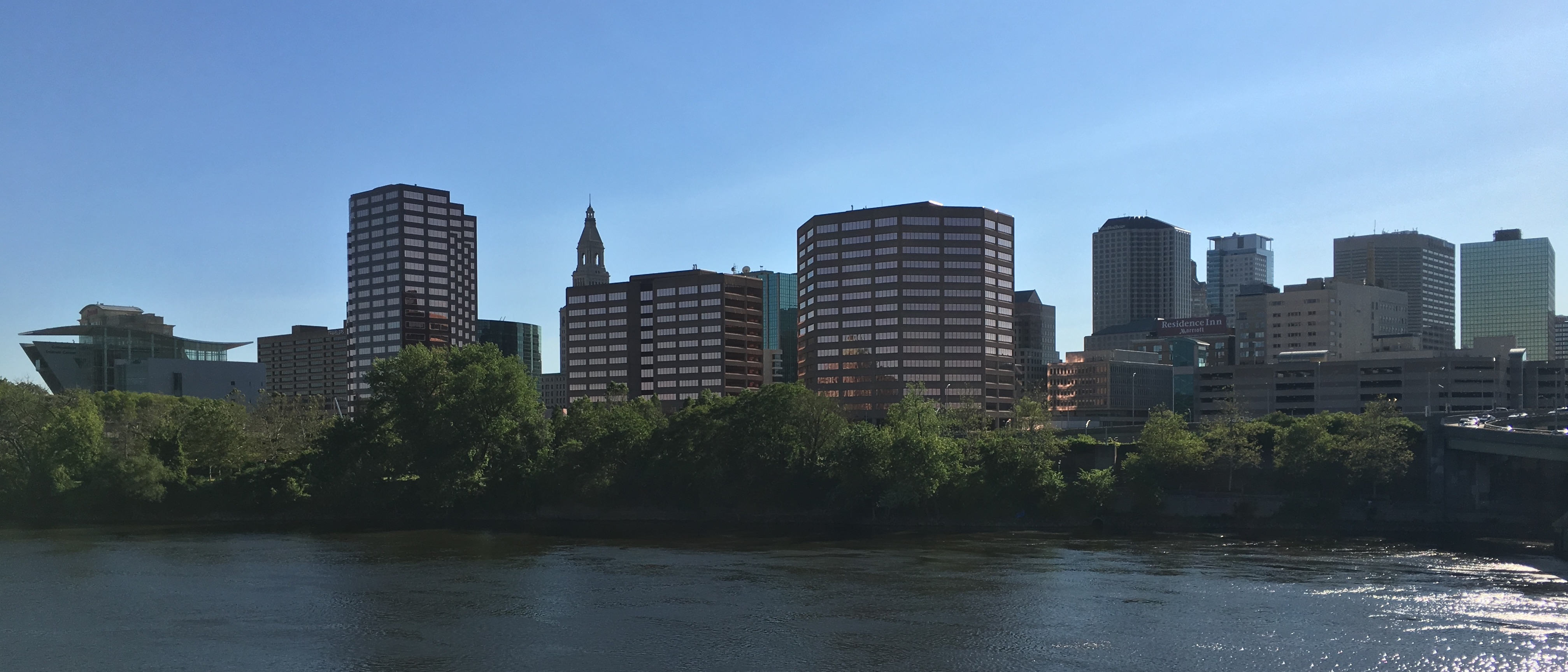 A cropped photo of the Hartford skyline as seen from Great River Park in East Hartford near the Bulkeley Bridge.